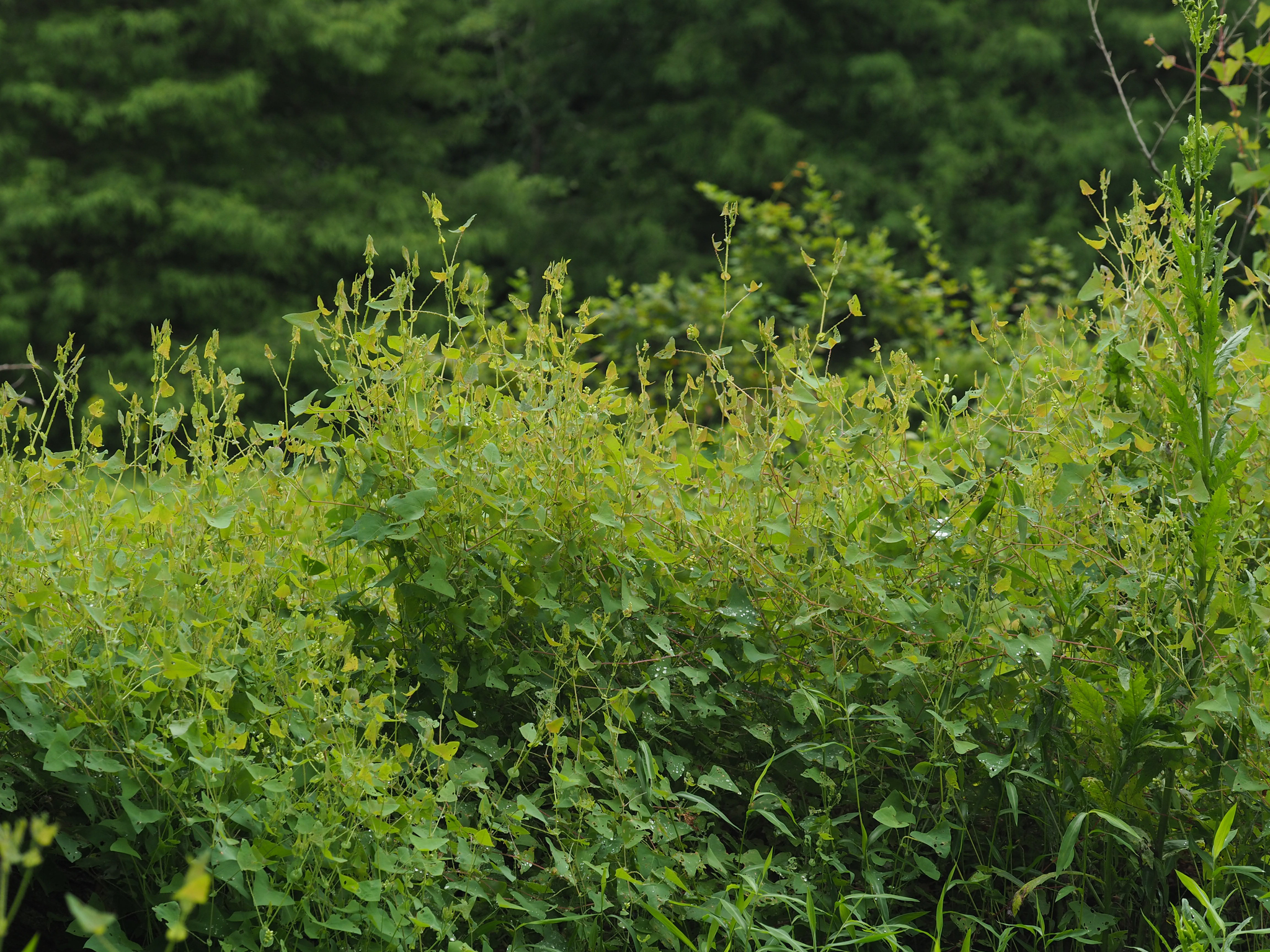 Persicaria perfoliata image of habitus. Source iNaturalist (researchgrade)